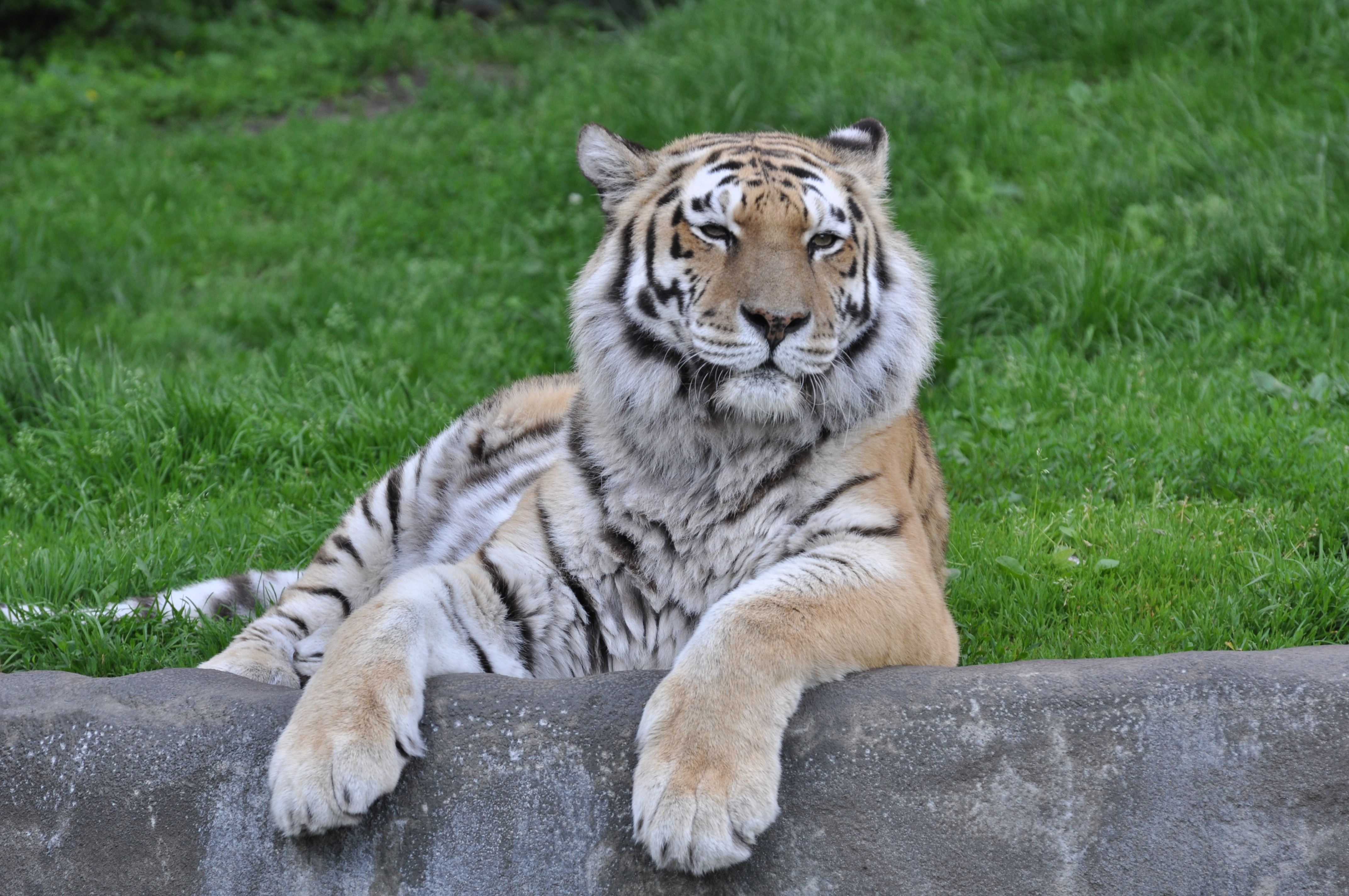 Siberian Tiger in Hagenbecks Tierpark, Hamburg.